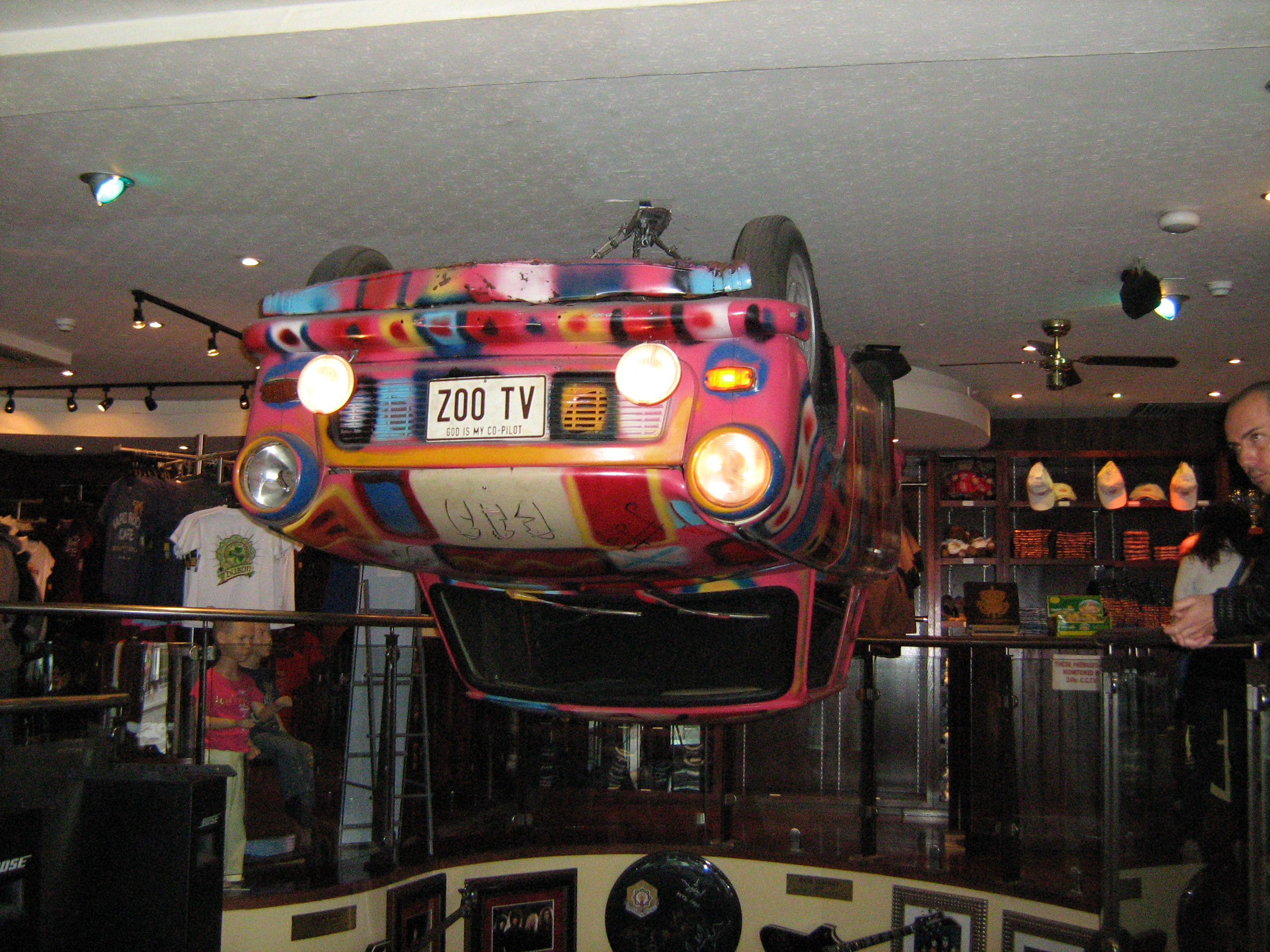 Trabant hanging - upside down - from the ceiling in the Hard Rock Cafe in Dublin. April 25, 2011.